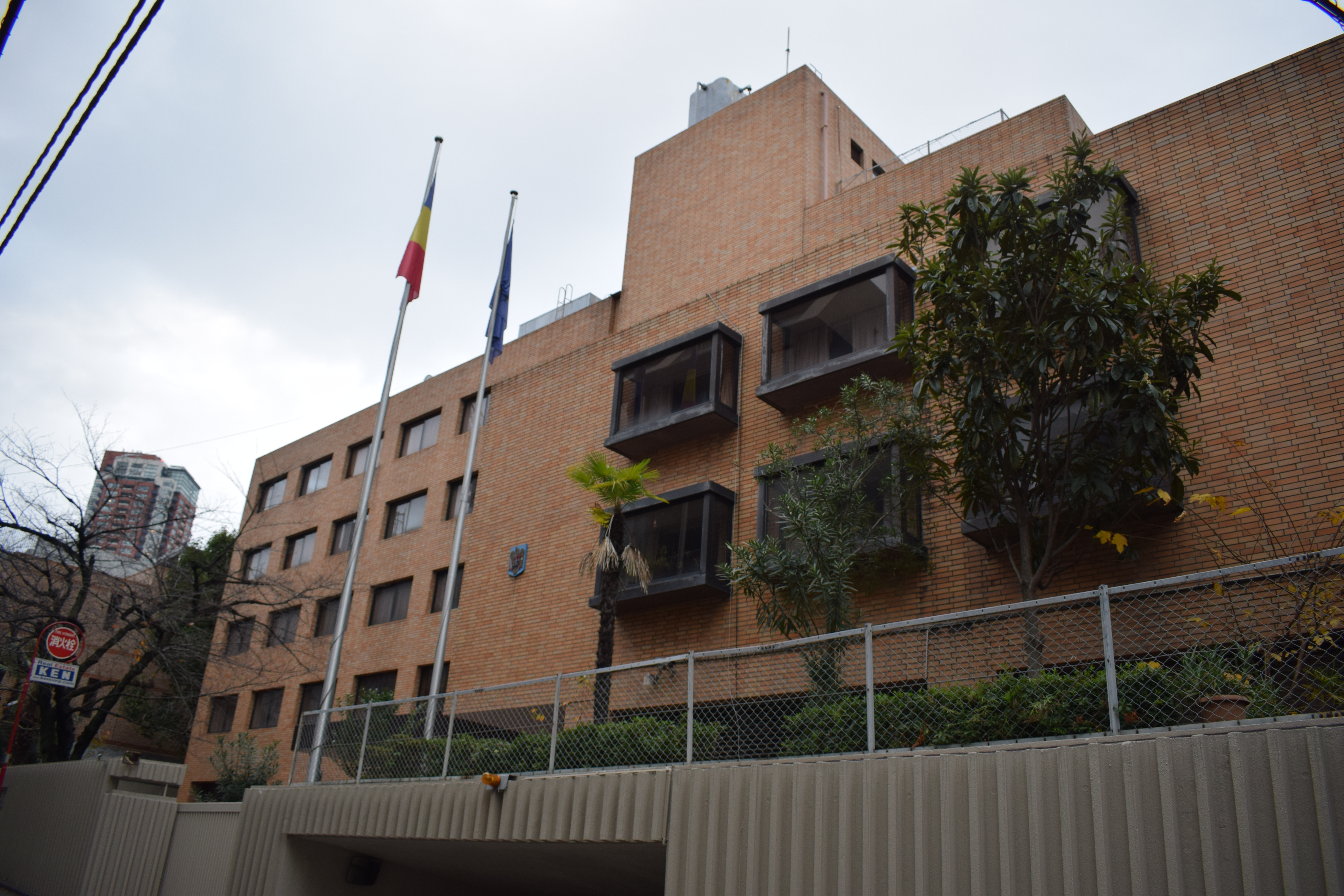 Embassy of Romania in Tokyo, Japan